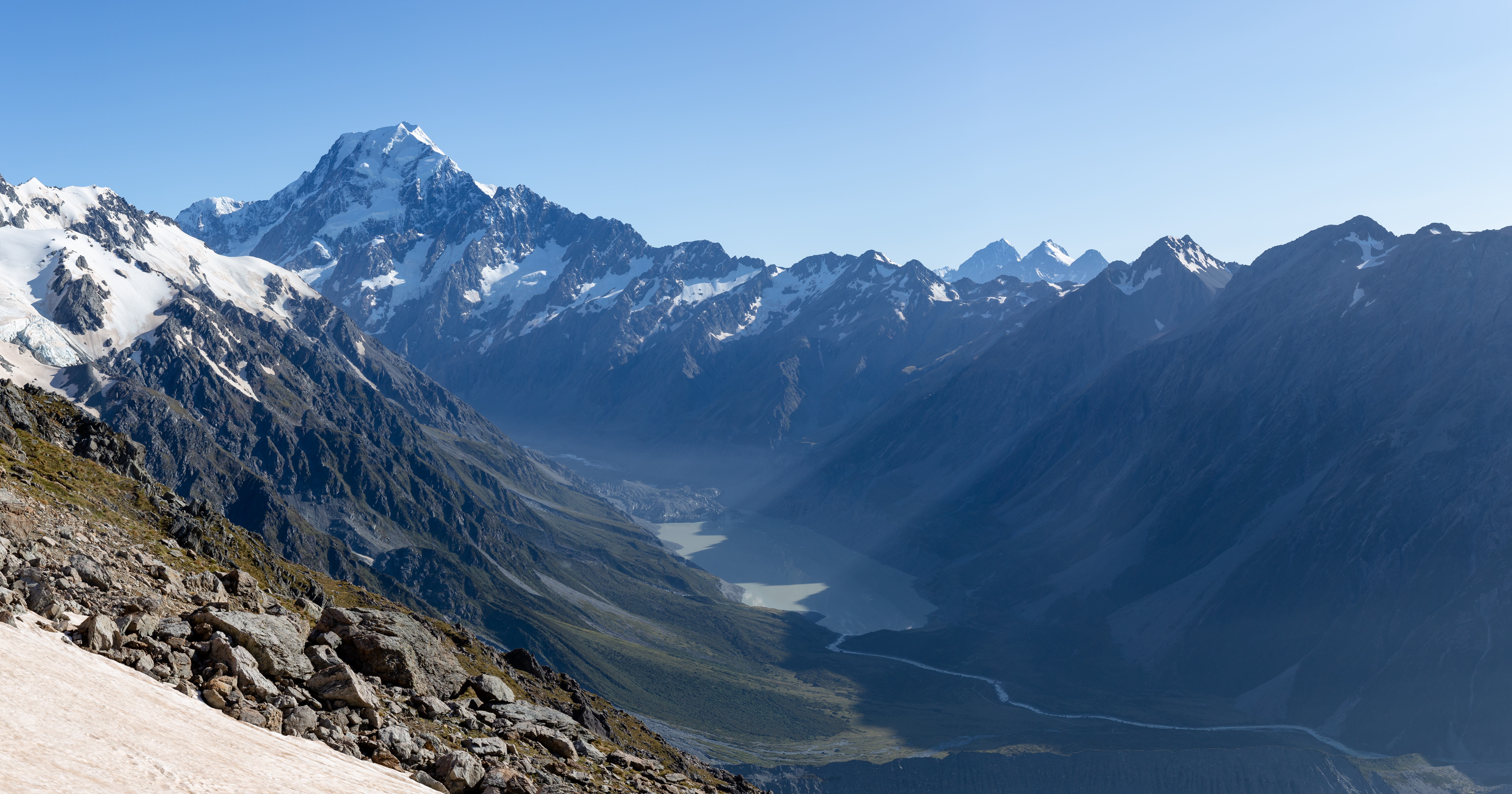 Aoraki/Mt Cook from the upper parts of the track to Mueller Hut, Aoraki/Mount Cook National Park, New Zealand